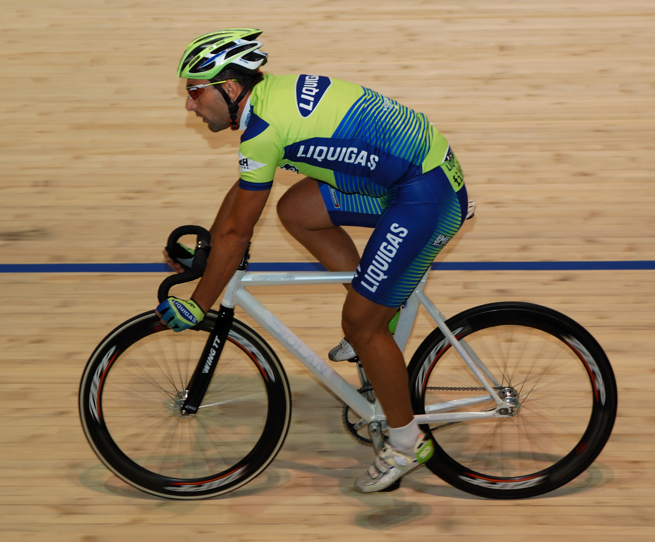 Revolution 17 - Track Cycling - Manchester Velodrome